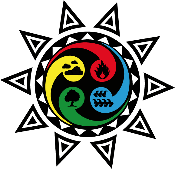 Four elements (Air, Fire, Water, Earth) in solar symbol